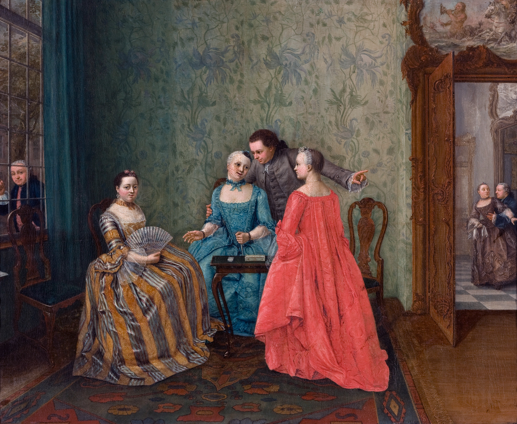 An elegant company in a rich interior, an amorous couple in the background, a man looking through the window